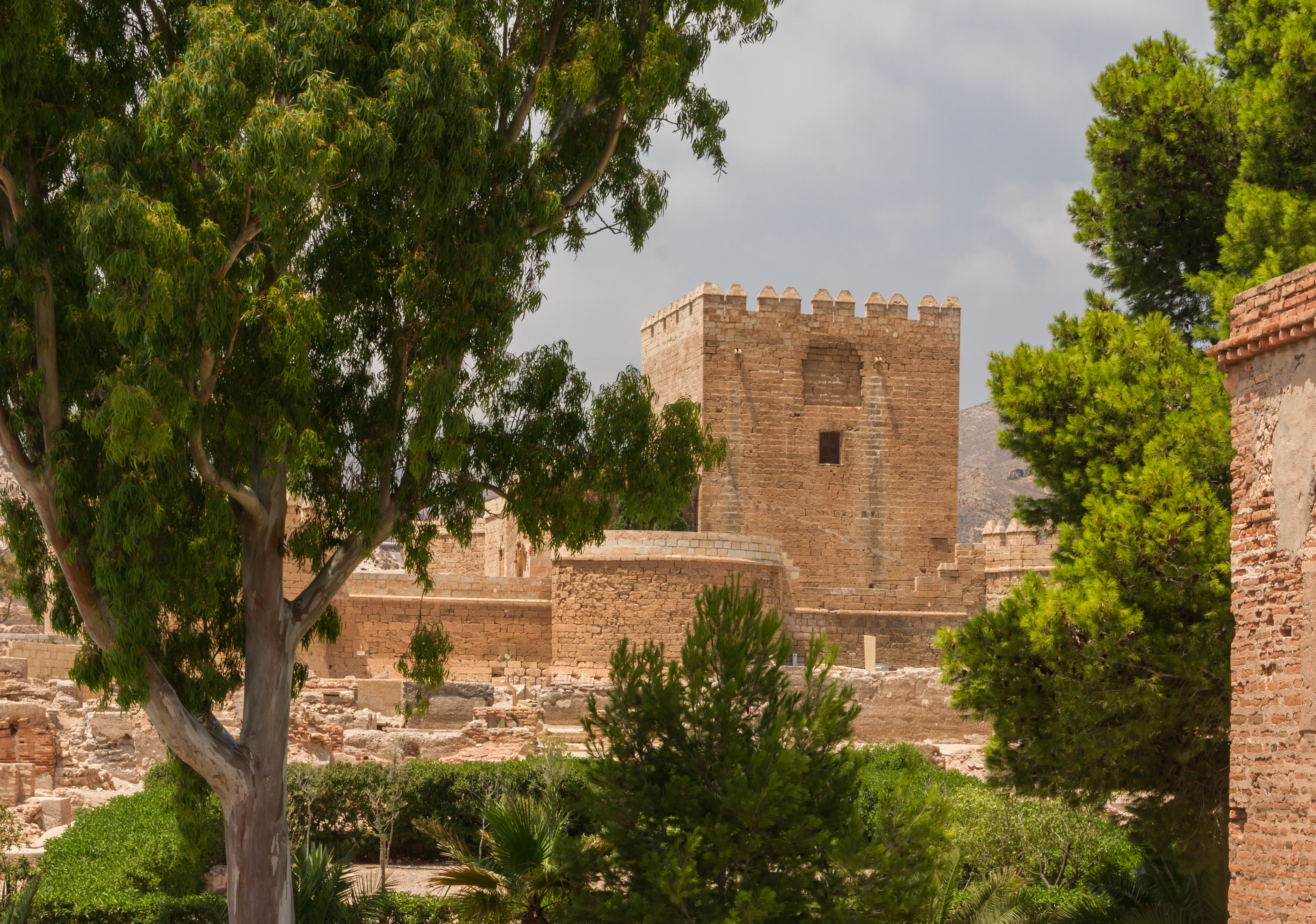 Gardens and tower, Alcazaba, Spain